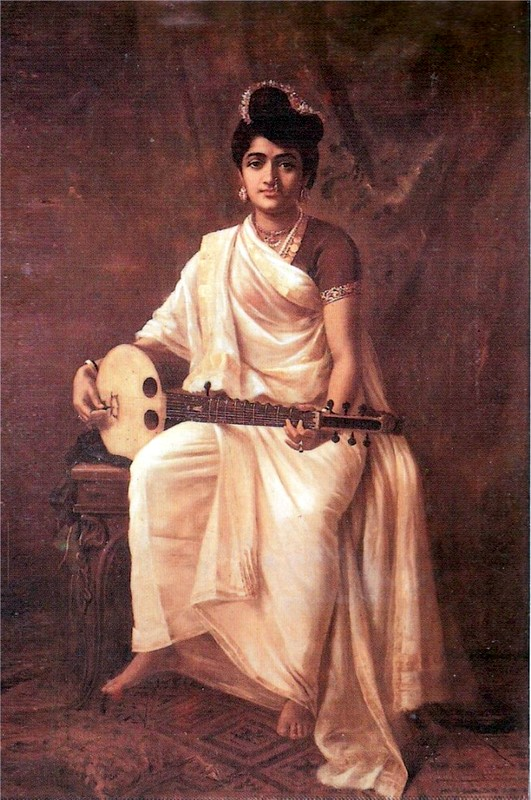 Portrait of an aristocratic lady from Malabar playing the swarbat.